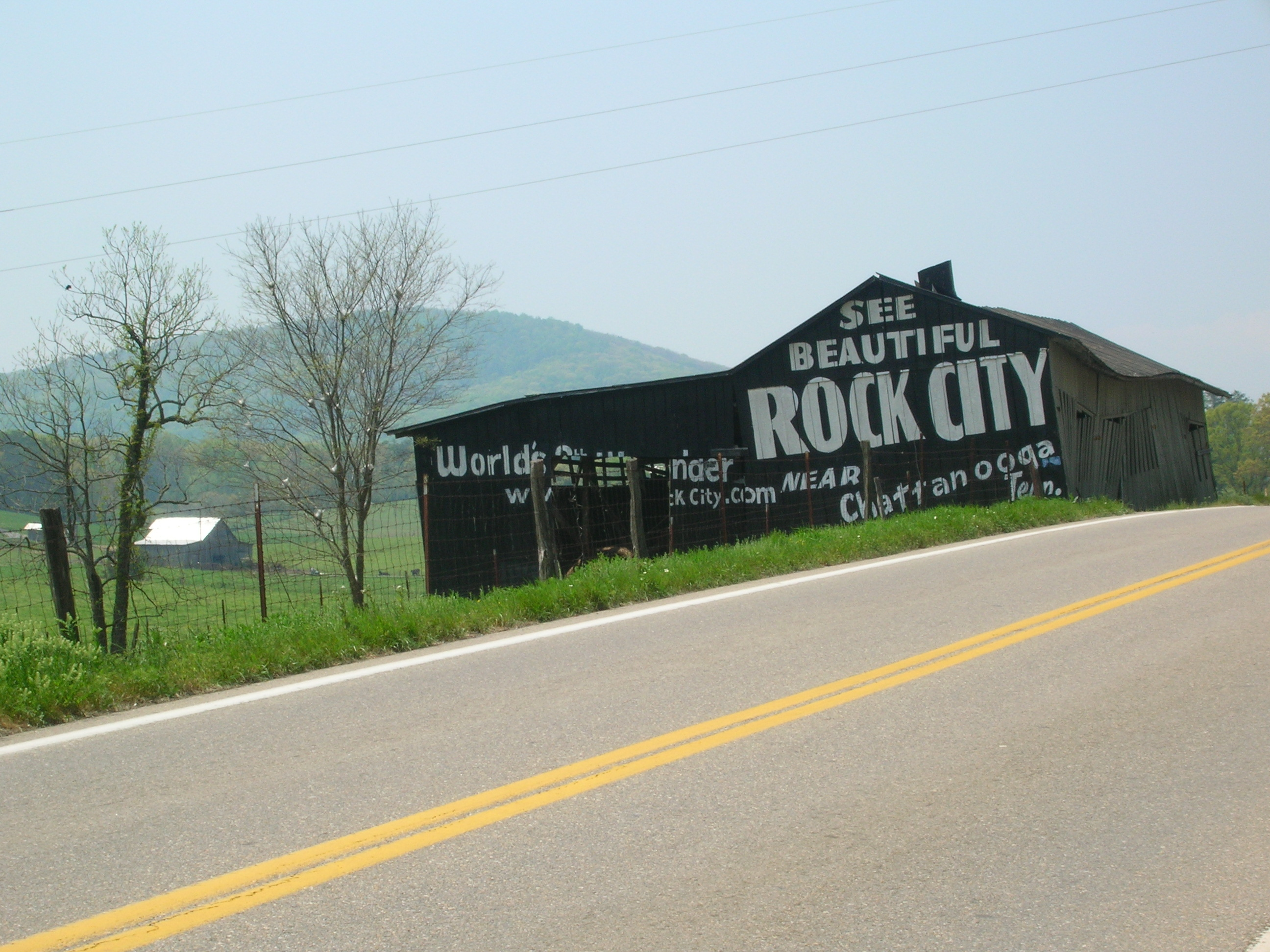 This "See Rock City" Barn on U.S. Highway 441, in Sevier County, Tennessee, is one of many painted in the eastern United States early in the 20th Century as a promotion for the tourist attraction on Lookout Mountain, near Chattanooga, Tennessee. Photo taken by myself, Scott Basford, in April of 2006.